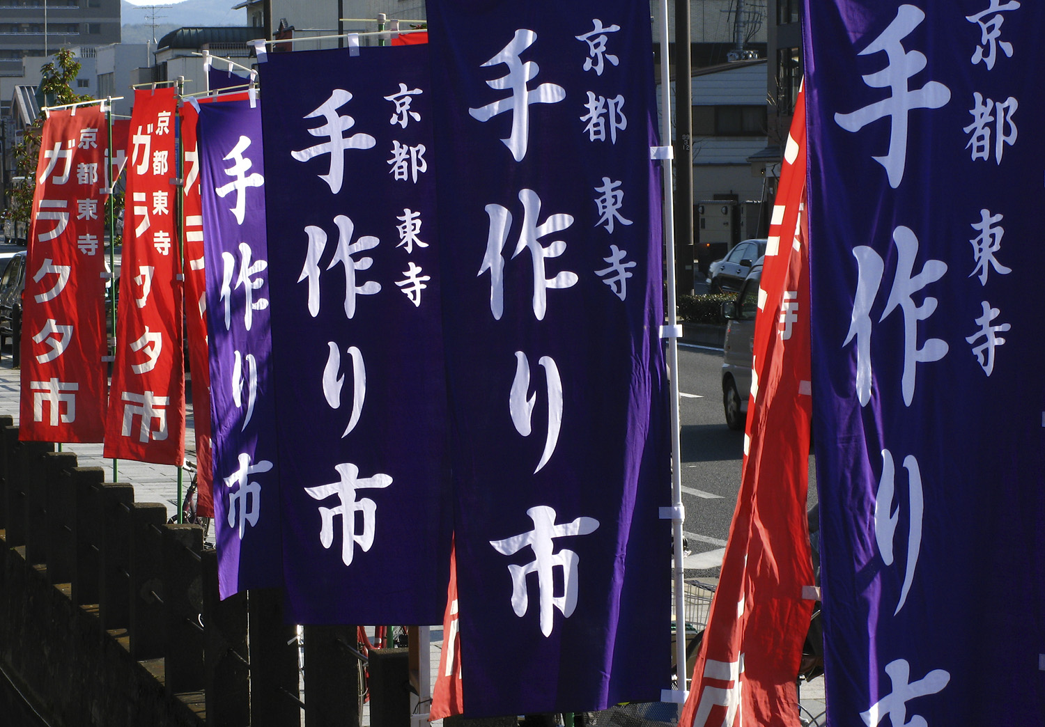 Colorful nobori outside Tō-ji, a Buddhist temple in Kyoto, Japan, announce the bazaar being held with the grounds. I took the photo.